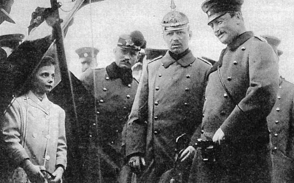 King Frederick August III. of Saxony (right) 1913 at airport Kaditz near Dresden at the opening